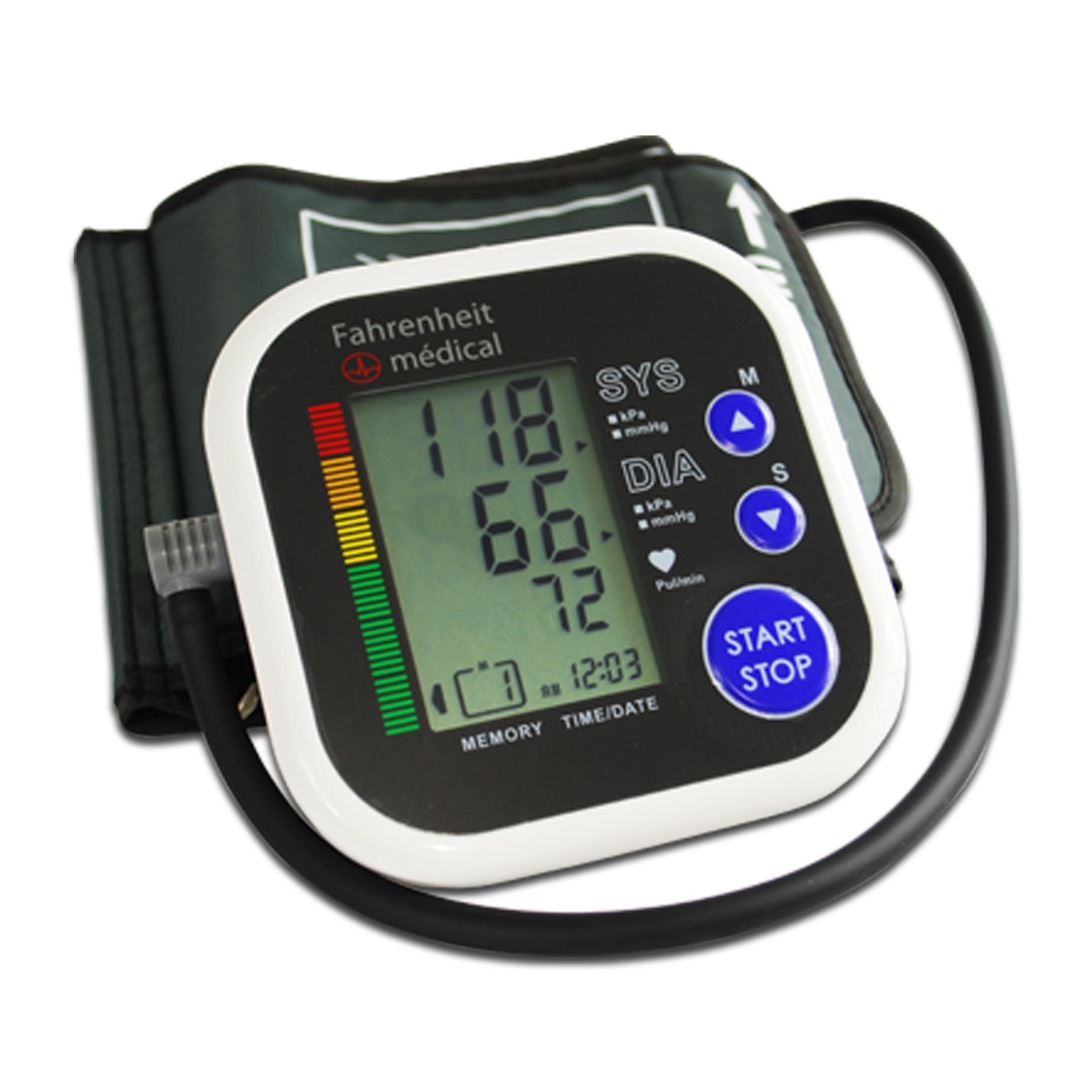 blood pressure monitor robe materiel medical